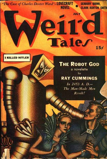 Cover of the pulp magazine Weird Tales (July 1941, vol. 35, no. 10) featuring The Robot God by Ray Cummings. Cover art by Hannes Bok.